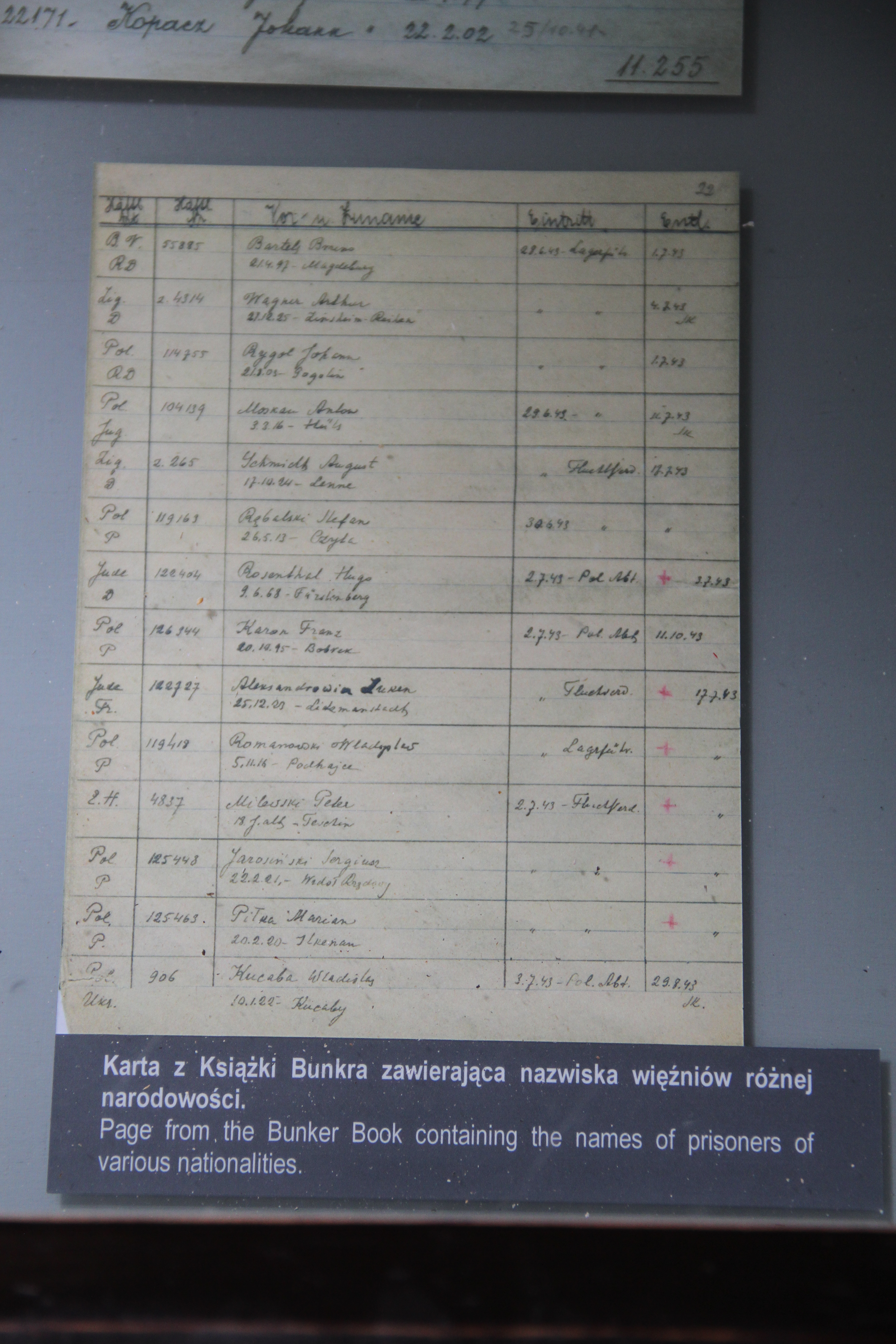 A page from the Bunker Book